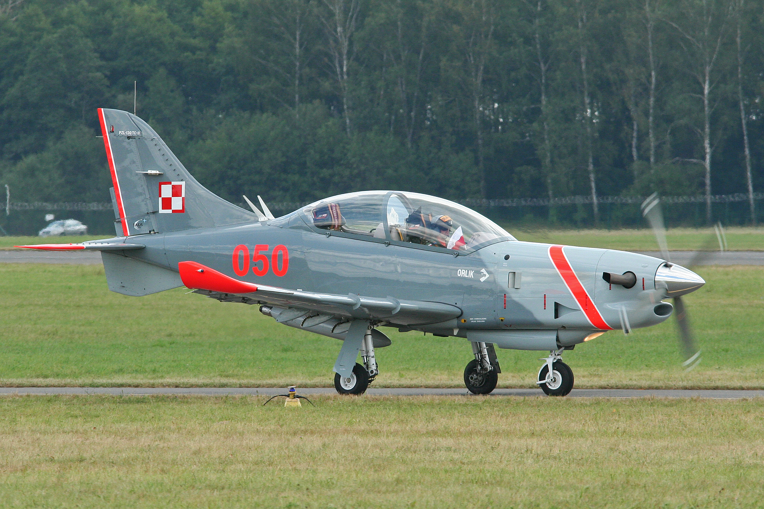 This is one of the aircraft flown by the Orlik Aerobatic Team, one of two Polish Air Force display teams. It is seen taxiing in after taking part in a formation flypast of Polish Air Force aircraft during the 2013 Radom Airshow. c/n 04010050. Radom Airbase, Poland. 24-8-2013